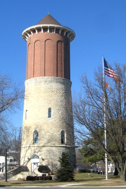 the iconic Water Tower in downtown Western Springs, Illinois